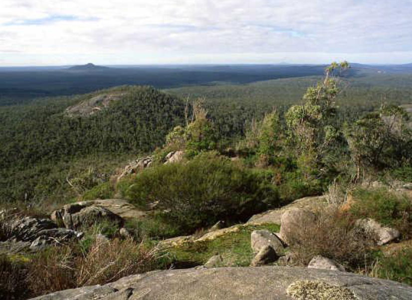 Scenic vista from Granite Peak to Mount Roe